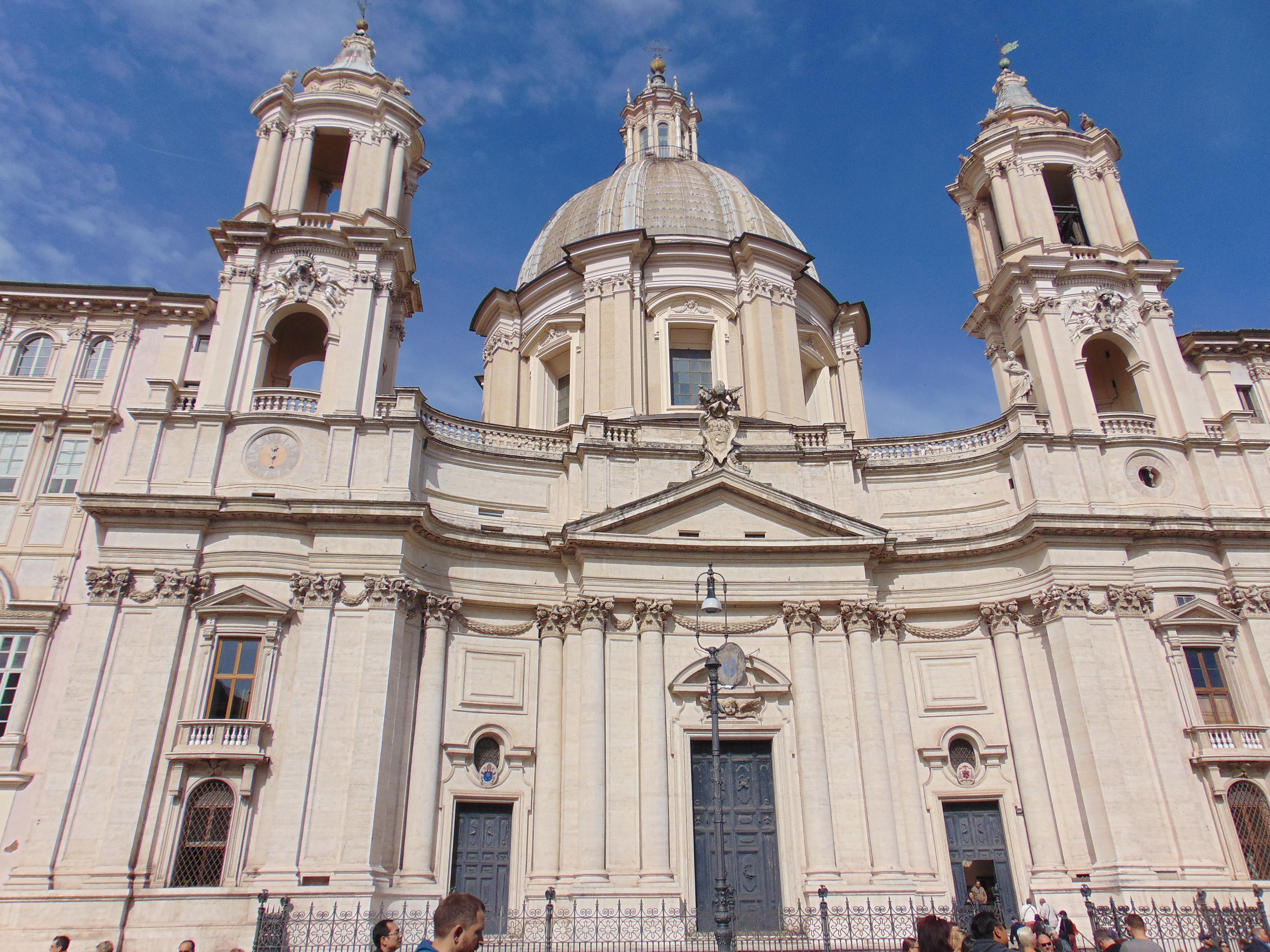 Chiesa di Sant'Agnese in Agone